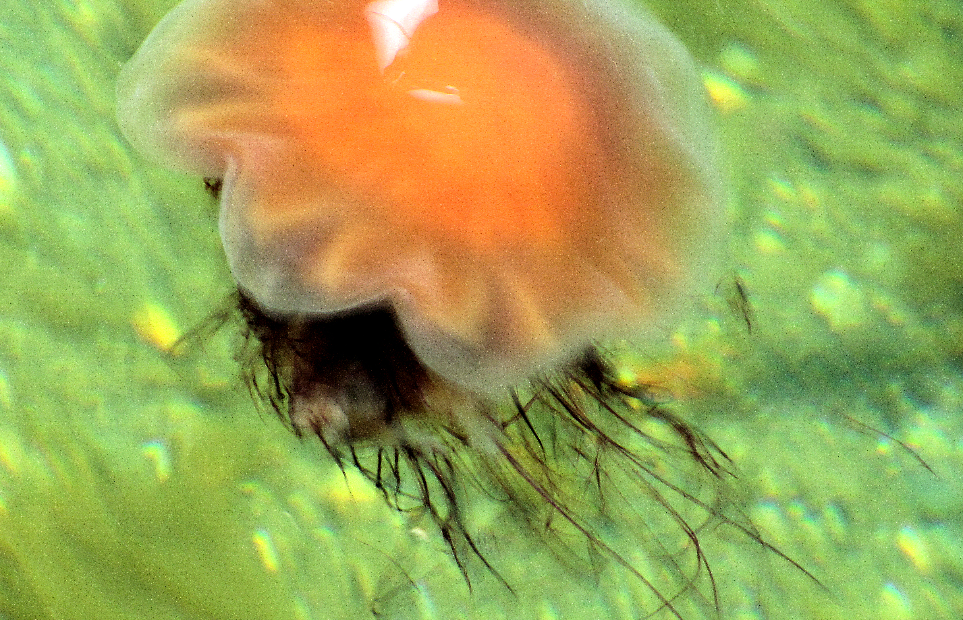 Lion's Mane Jellyfish (Cyanea capillata), Bonne Bay, Newfoundland and Laborador, Canada